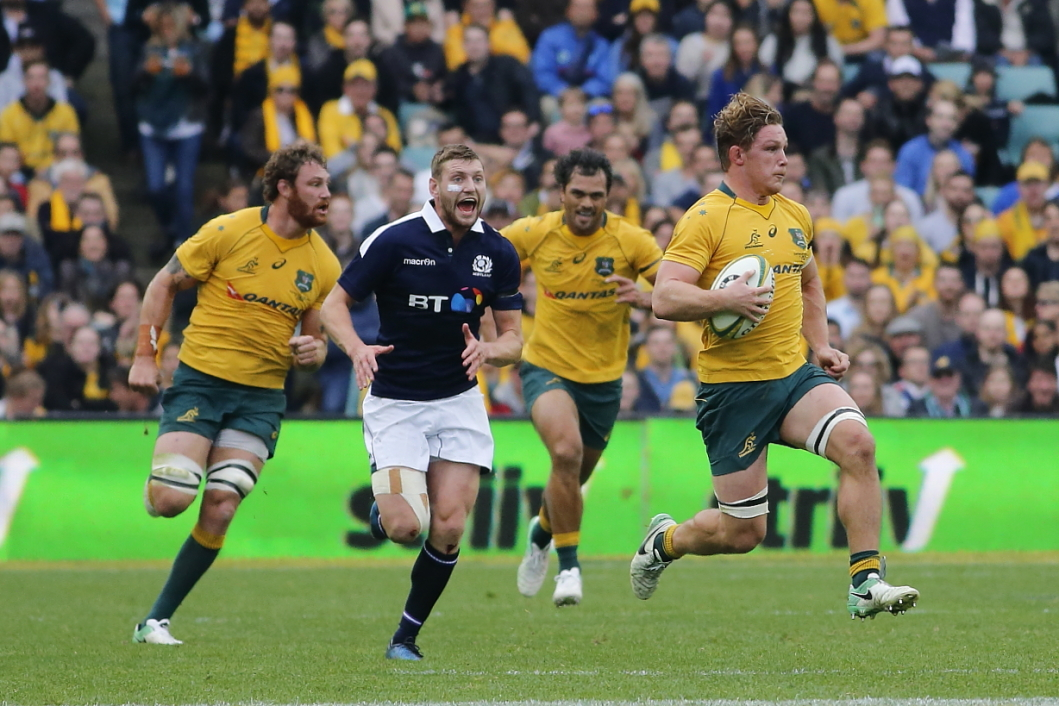 2017.06.17.15.37.44-Hooper break from maul-0006 The 2017 mid-year rugby union international, 17 June 2017, Australia vs Scotland at Allianz Stadium, Sydney